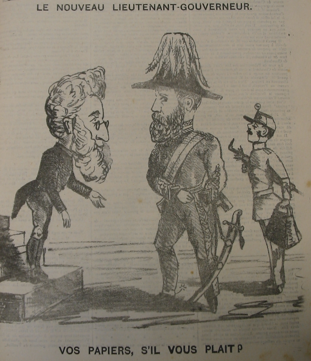 Caricature from La Voix des Îles 11 October 1873. Bailiff of Jersey Jean Hammond greets new Lieutenant Governor of Jersey Sir William Sherbrooke Ramsay Norcott (sworn in 13 October 1873)